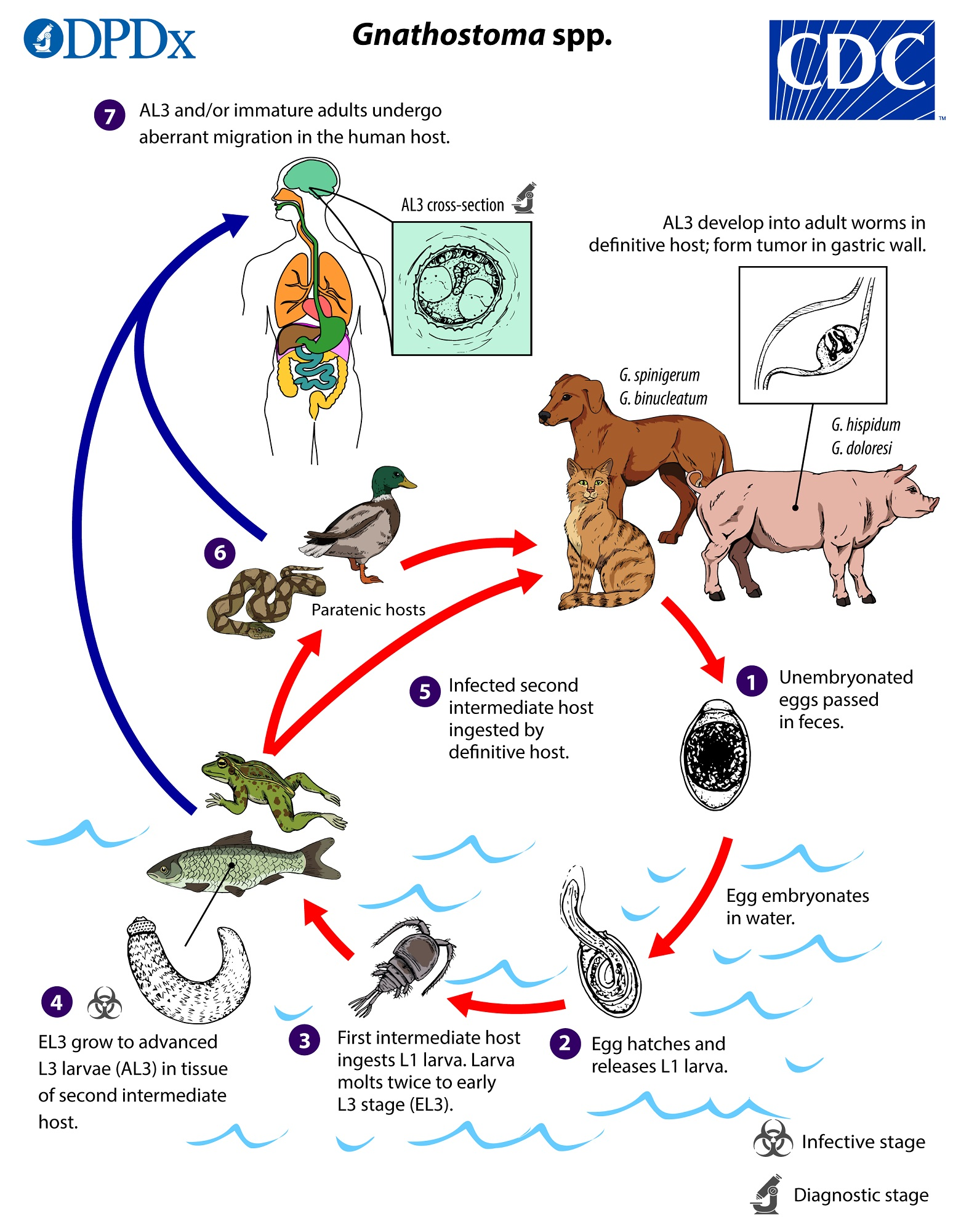 Gnathostoma life cycle; Centers for Disease Control and Prevention